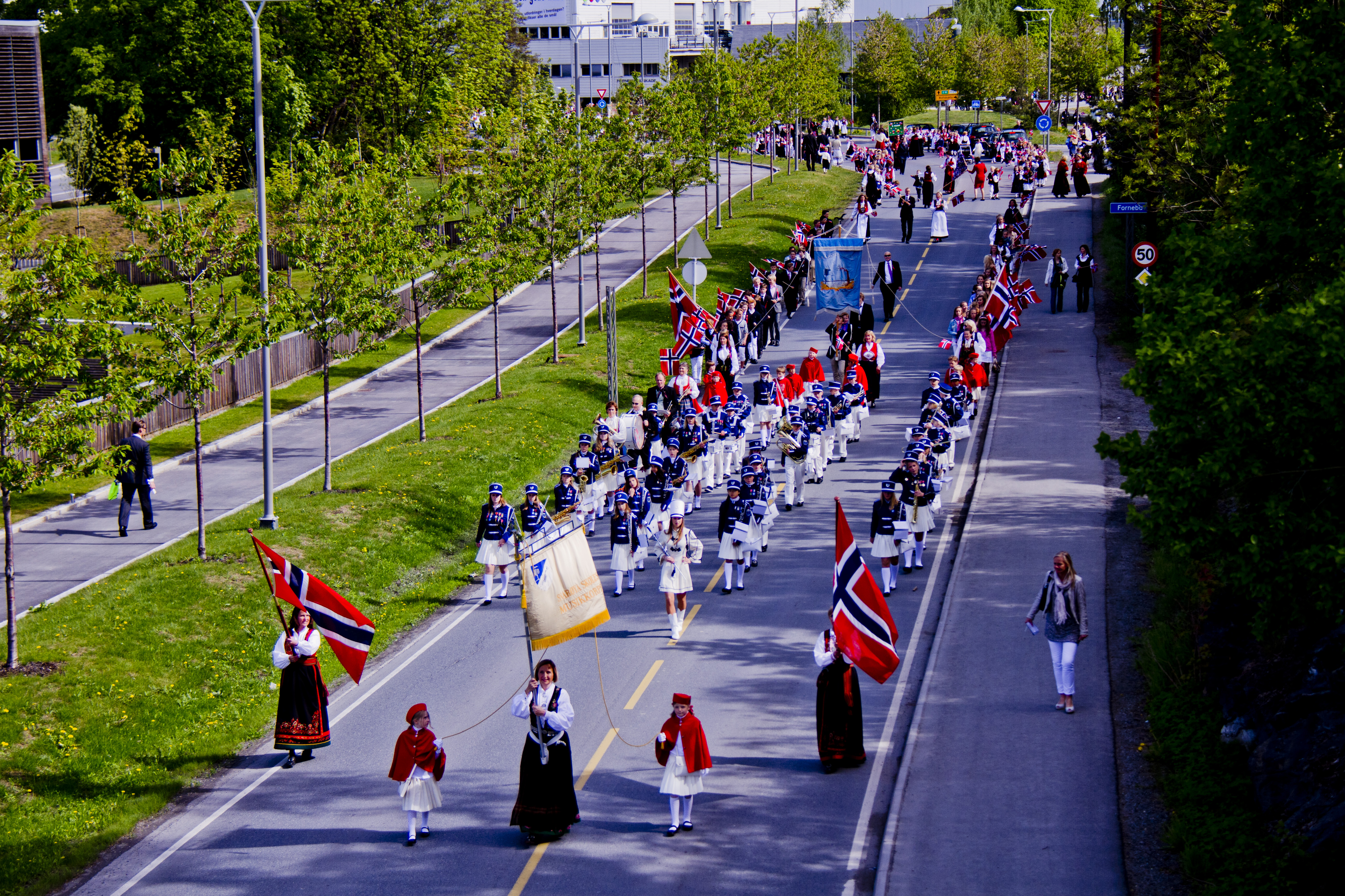 National day at Snarøya, Bærum, Akershus, Norway